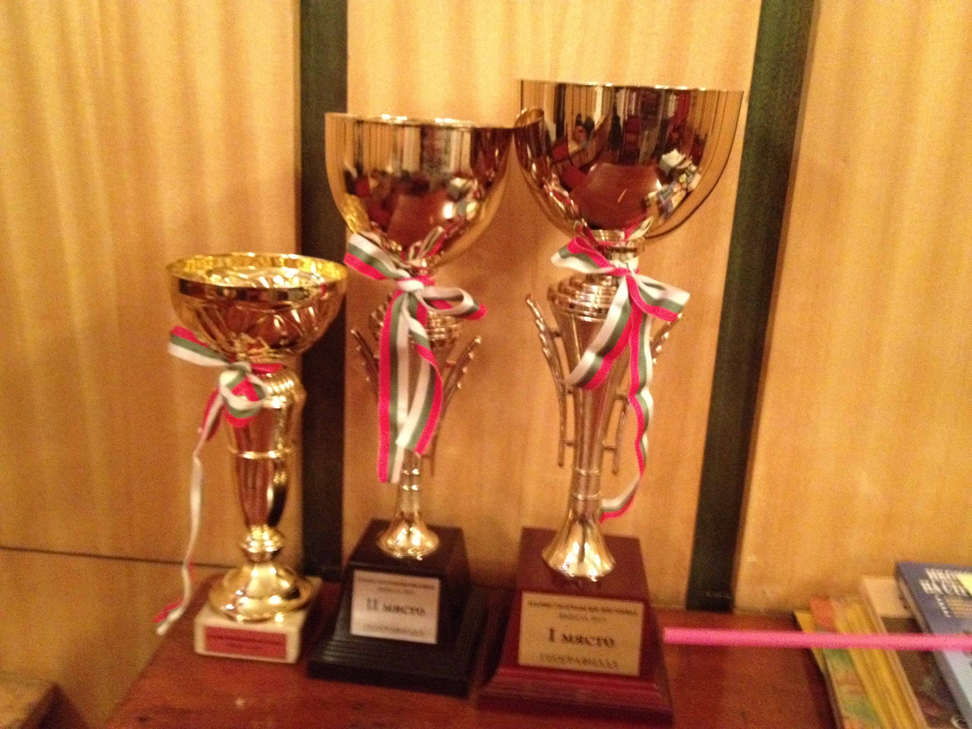 Купите за победителите в "Географиада"